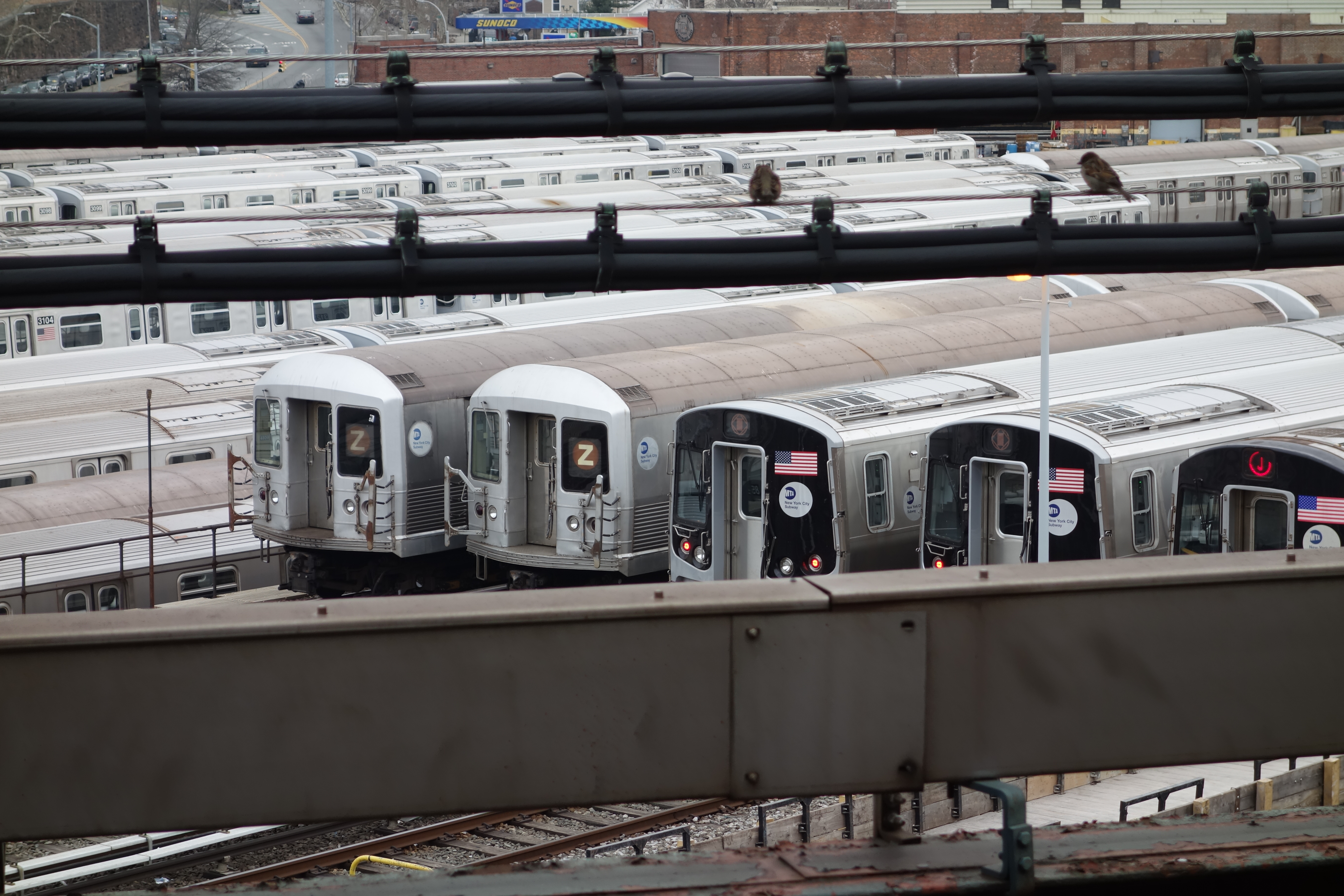 Looking at J and Z trains stored at the East New York Yard from the adjacent Broadway Junction BMT Canarsie station in East New York, Brooklyn.